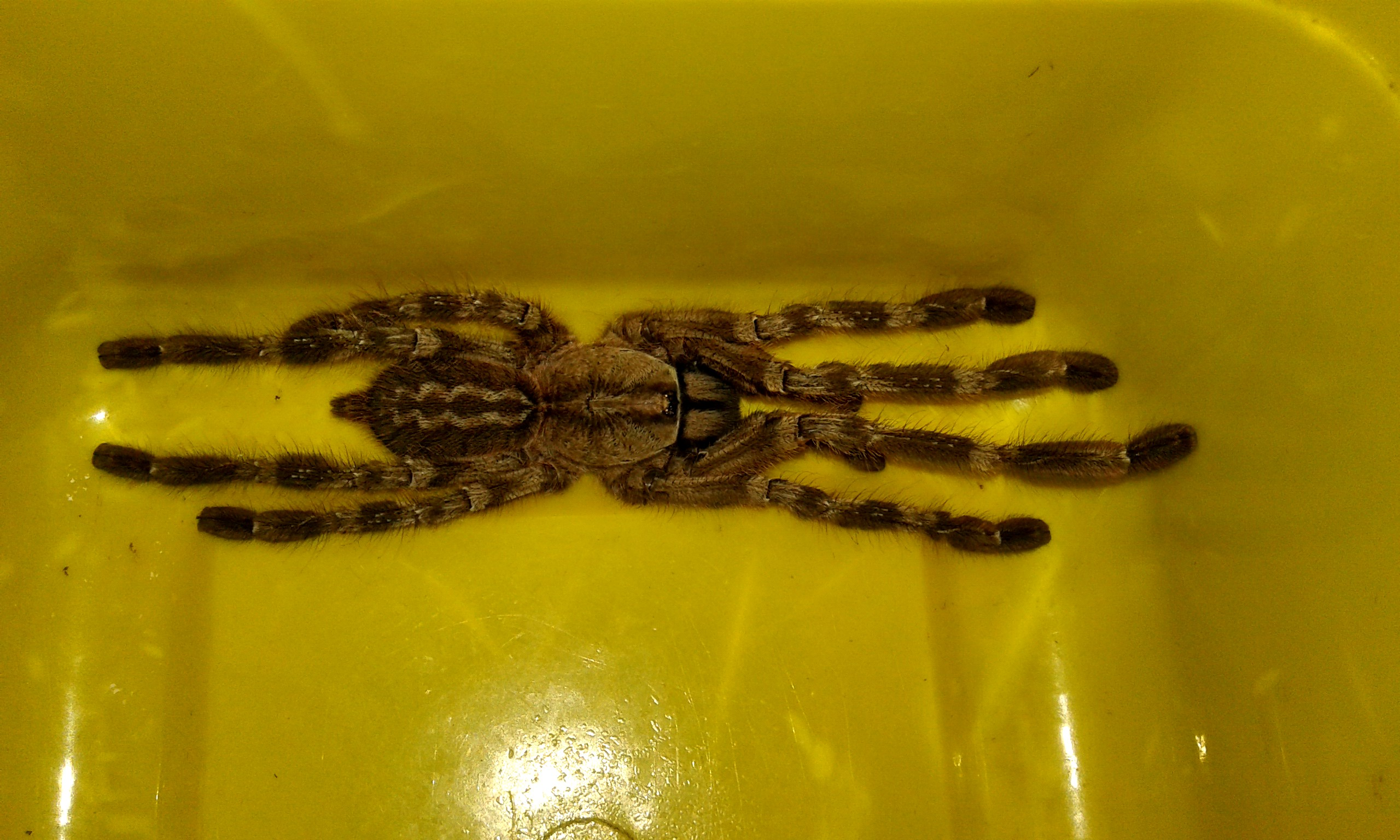 Poecilotheria vittata taken by Chamara Asanga from Jaffna